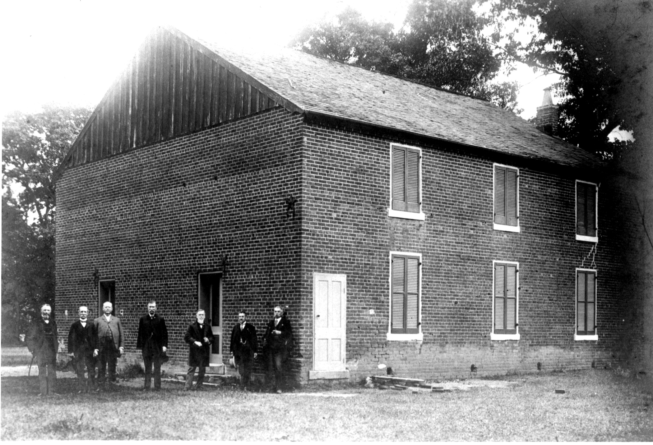 Veterans at Salem Church, about 1900. On the gable end, one entrance was for men, the other for women. The entrance on the side led directly to the gallery. It was for slaves.